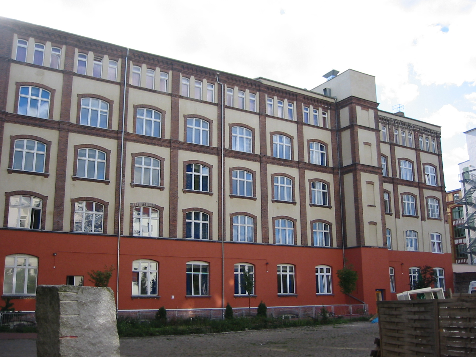 Old screw factory, Boxhagener Strasse 73, Berlin